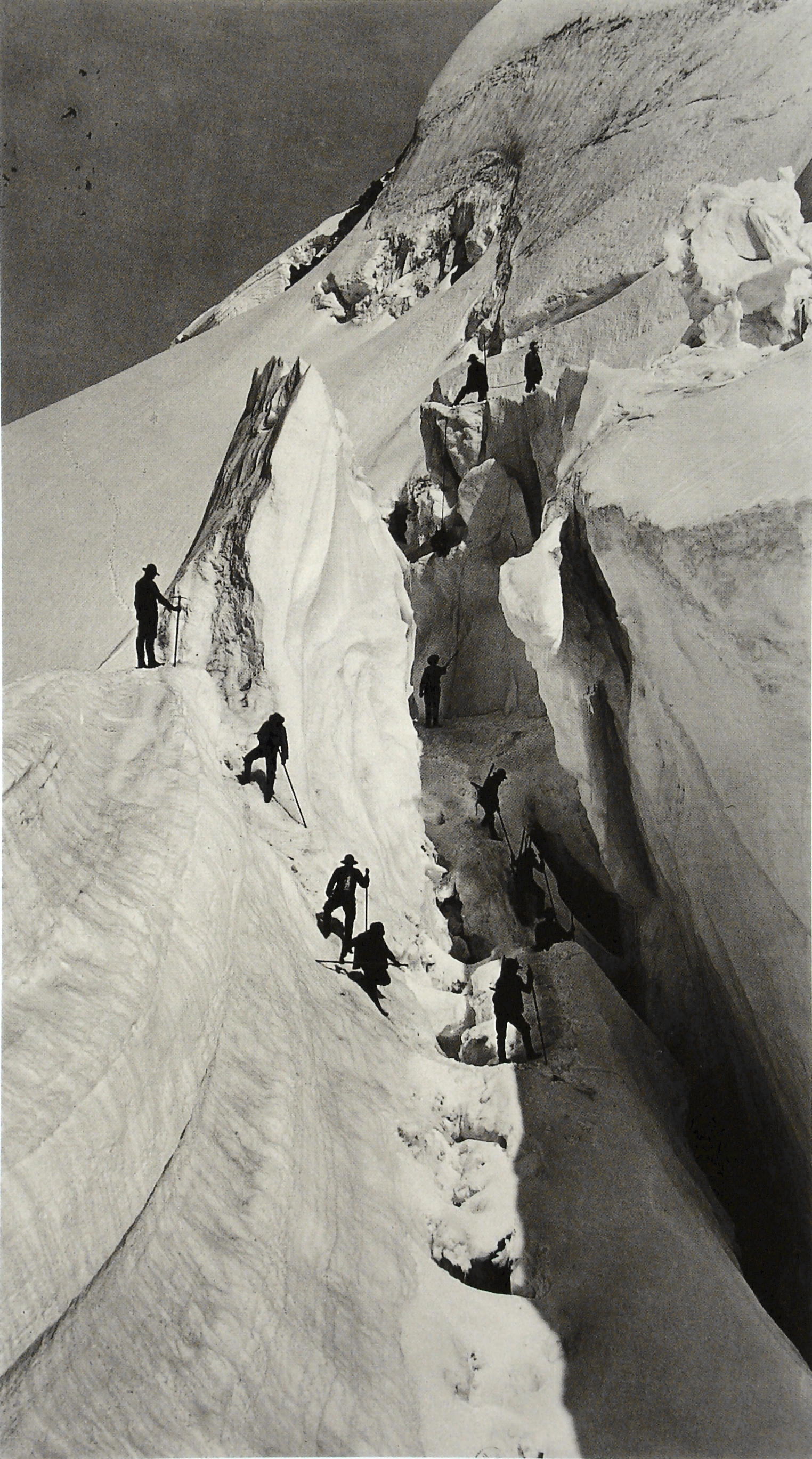 "La crevasse (Départ)" ("The crevasse (Start)"), photography by Bisson brothers. Taken while climbing Mont Blanc in 1862.